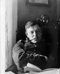 Portrait of August Macke